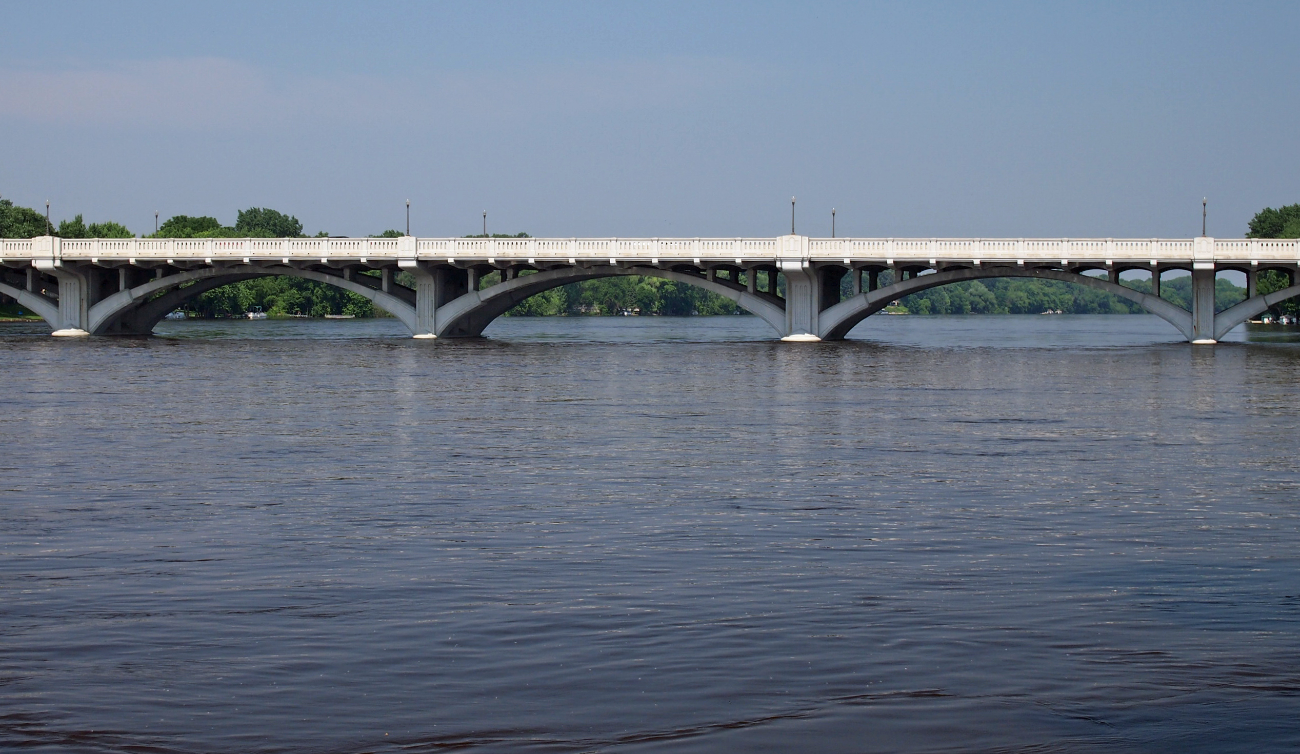 Anoka-Champlin Mississippi River Bridge carrying U.S. Route 169 (formerly U.S. Route 52) over the Mississippi River, Peninsula Point Two Rivers Historical Park, Anoka, Minnesota, USA